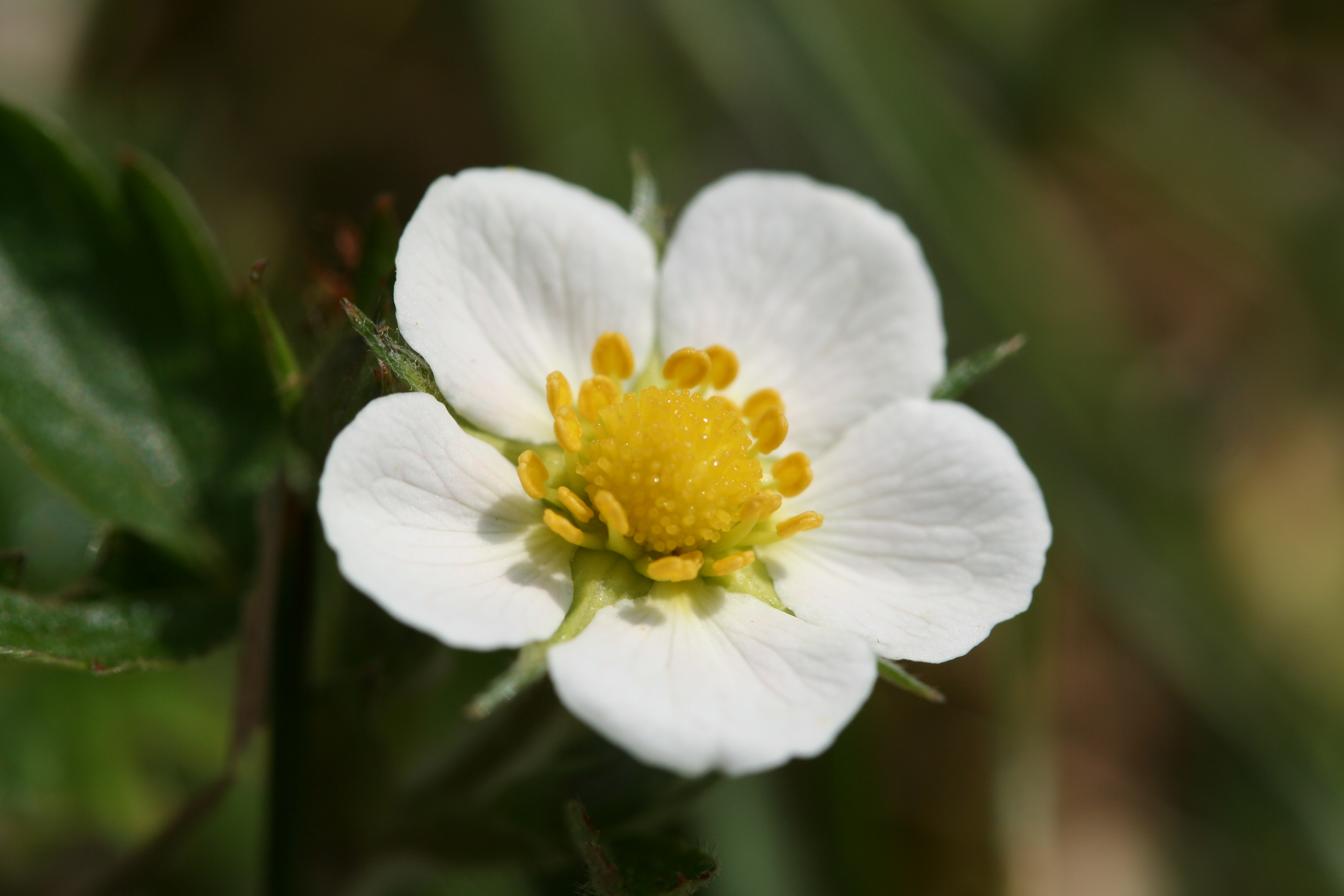 Fragaria vesca 6 may 2006 IJmuiden, the Netherlands